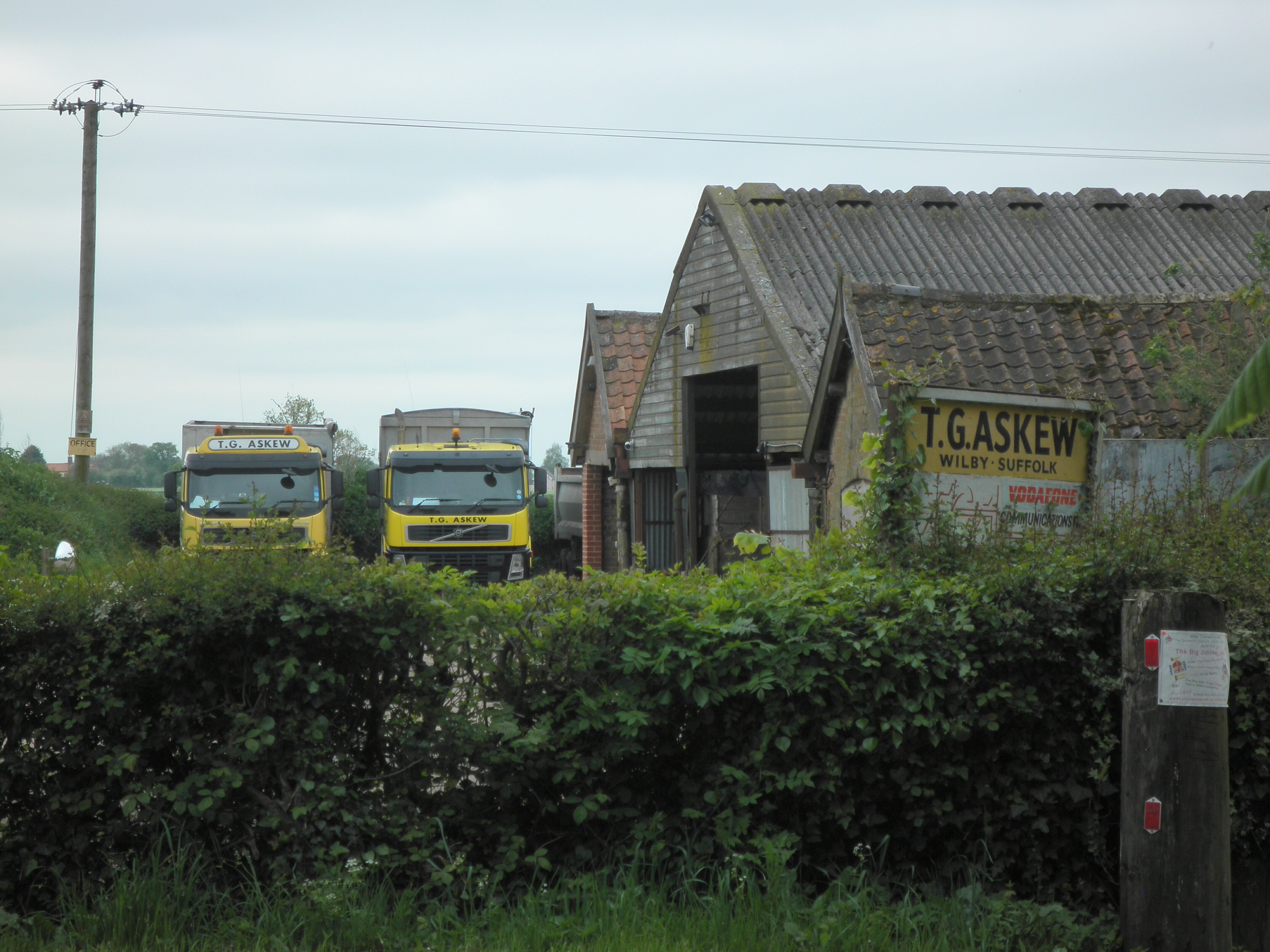 T G Askwes yard in Wilby Suffolk. His sign at the front with his newest and oldest Volvo trucks in the background.